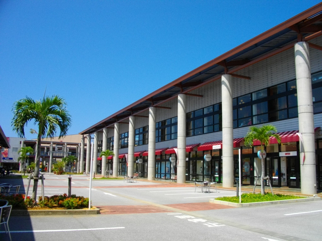 Okinawa Outlet Mall Ashibinaa